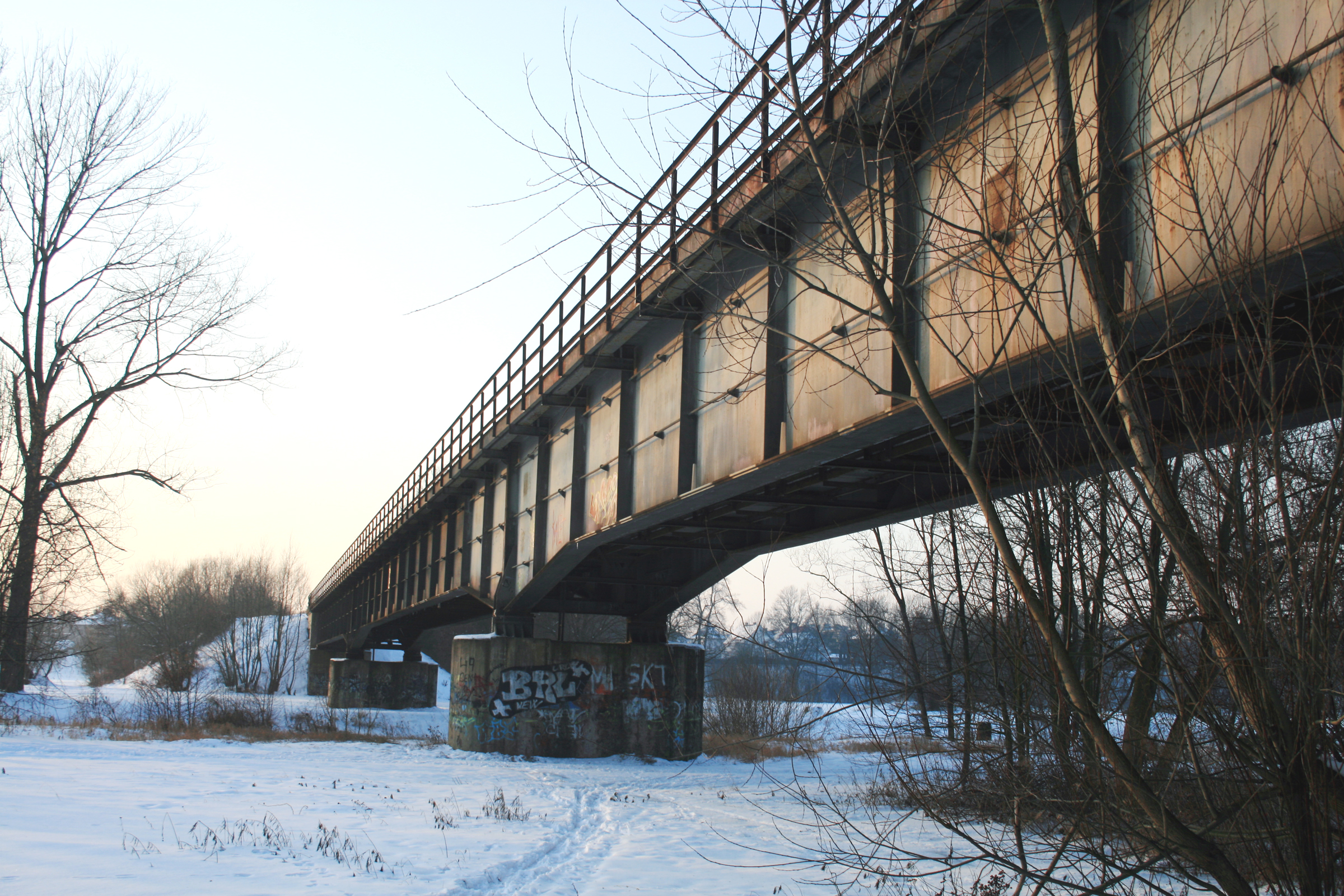 Railway bridge over Elbe river near of Jaroměř, east Bohemia, Czech republic